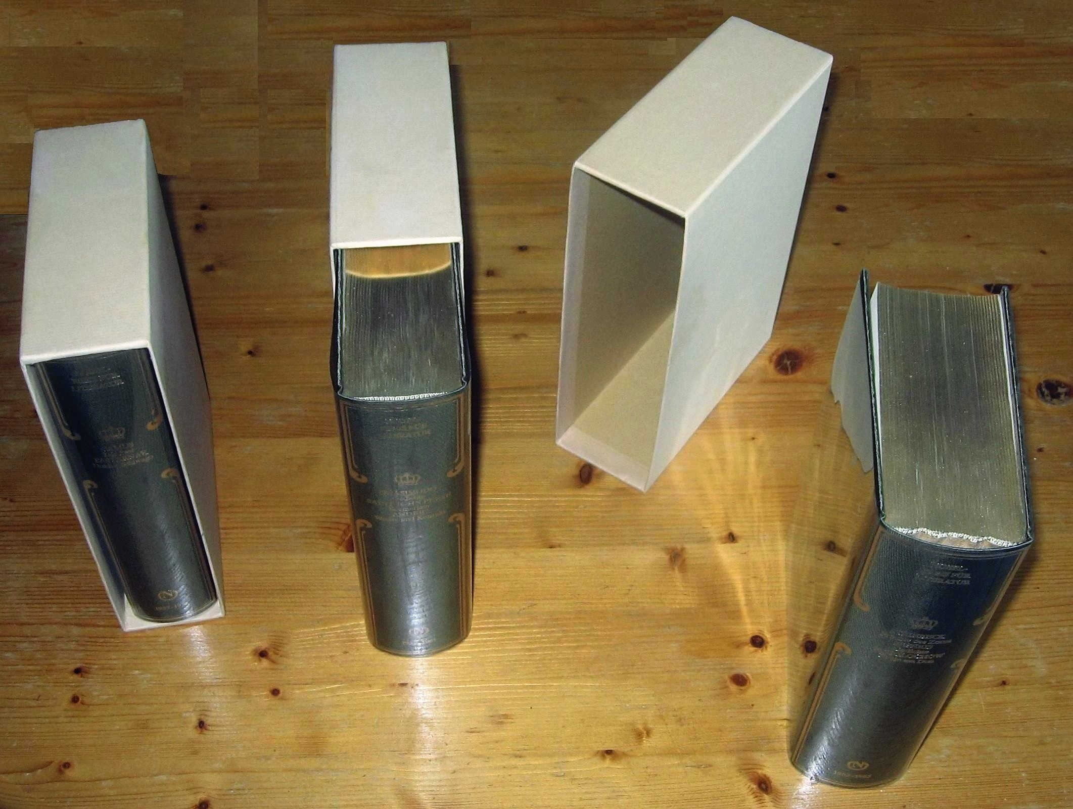 Books and slipcases. Photo by User:Jarlhelm Date: July 16, 2007